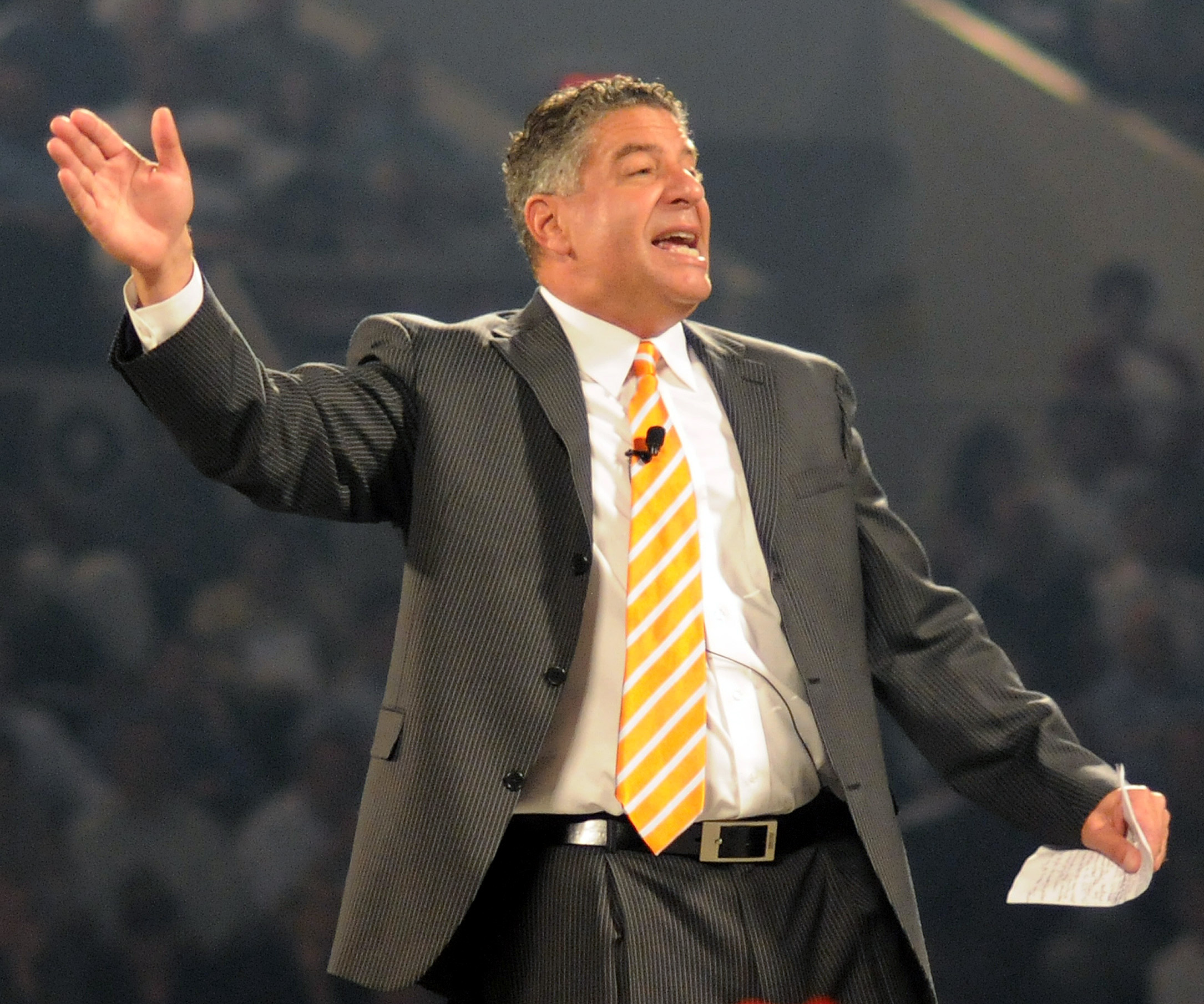 KNOXVILLE, Tenn. -- University of Tennessee men’s basketball coach Bruce Pearl addresses the Get Motivated! business seminar at the Knoxville Civic Coliseum, July 21, 2010. Members of The I.G. Brown Air National Guard Training and Education Center attended the event.